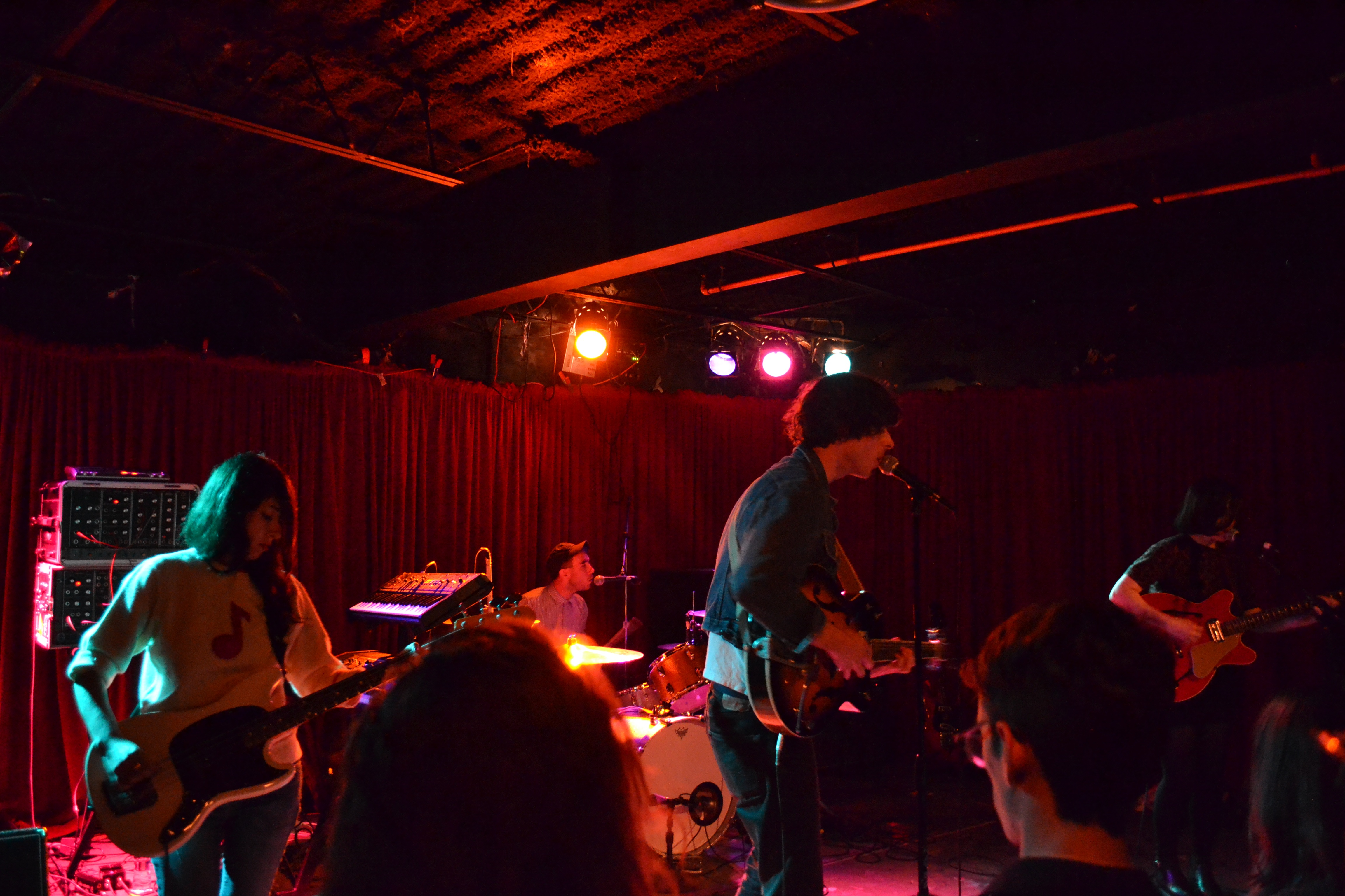 Indie pop band Veronica Falls live in 2011